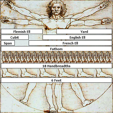 This derivation of the Vitruvian Man by Leonardo Da Vinci depicts nine historical units of measurement: the Yard, the Span, the Cubit, the Flemish Ell, the English Ell, the French Ell, the Fathom, the Hand , and the Foot. Da Vinci drew the Vitruvian man to scale, so the units depicted here are displayed with their proper historical ratios.